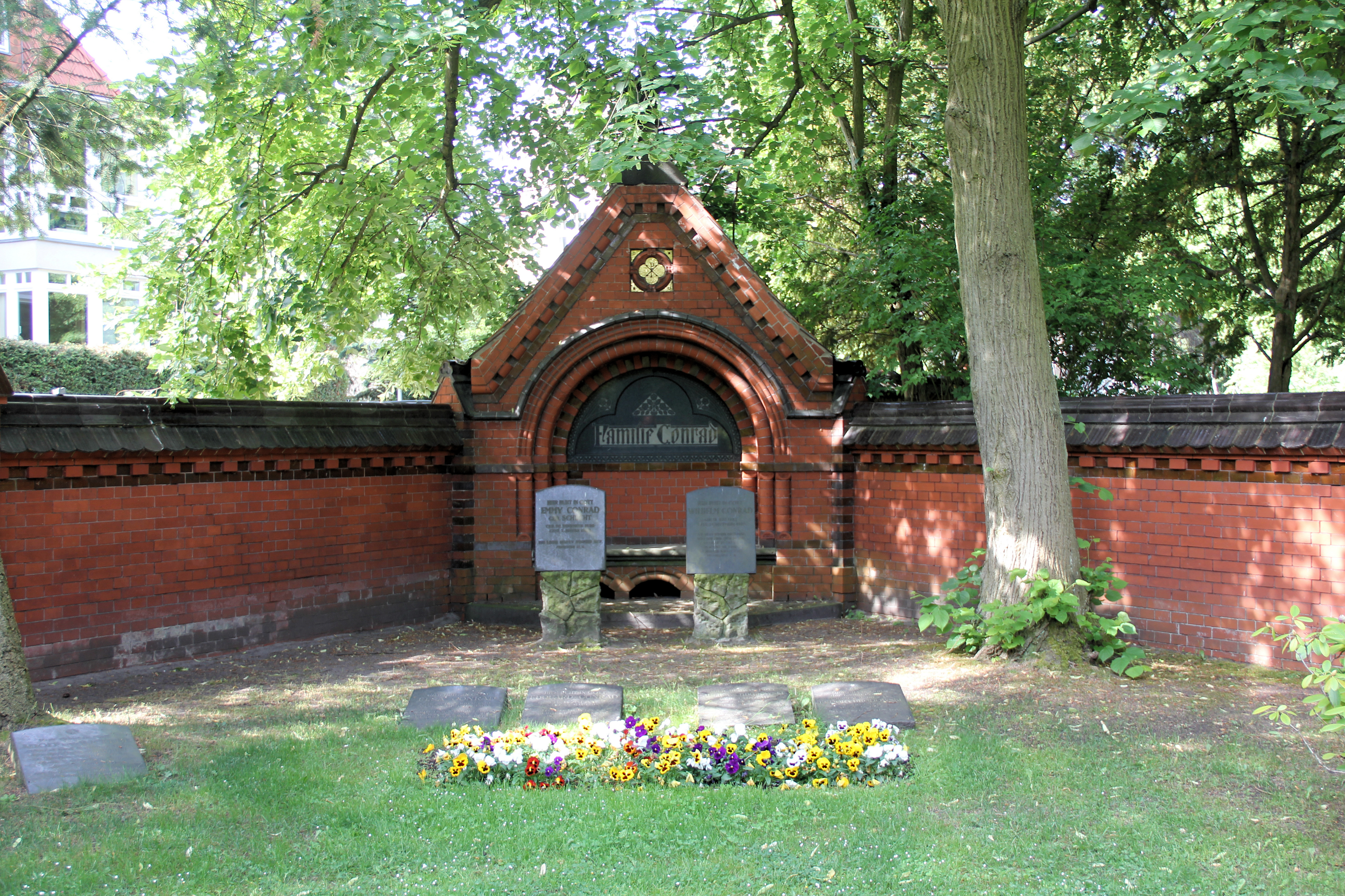 "Ehrengrab" (grave of honor), Wilhelm Conrad, Lindenstraße 1, Berlin-Wannsee, Germany Koordinate:52°25′31″N 13°9′12″E / 52.42528°N 13.15333°E